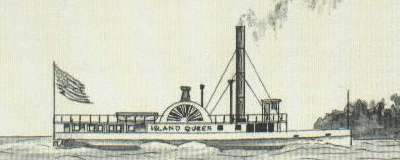 Steamship Island Queen before her sinking in 1864 by Confederates on Lake Erie.